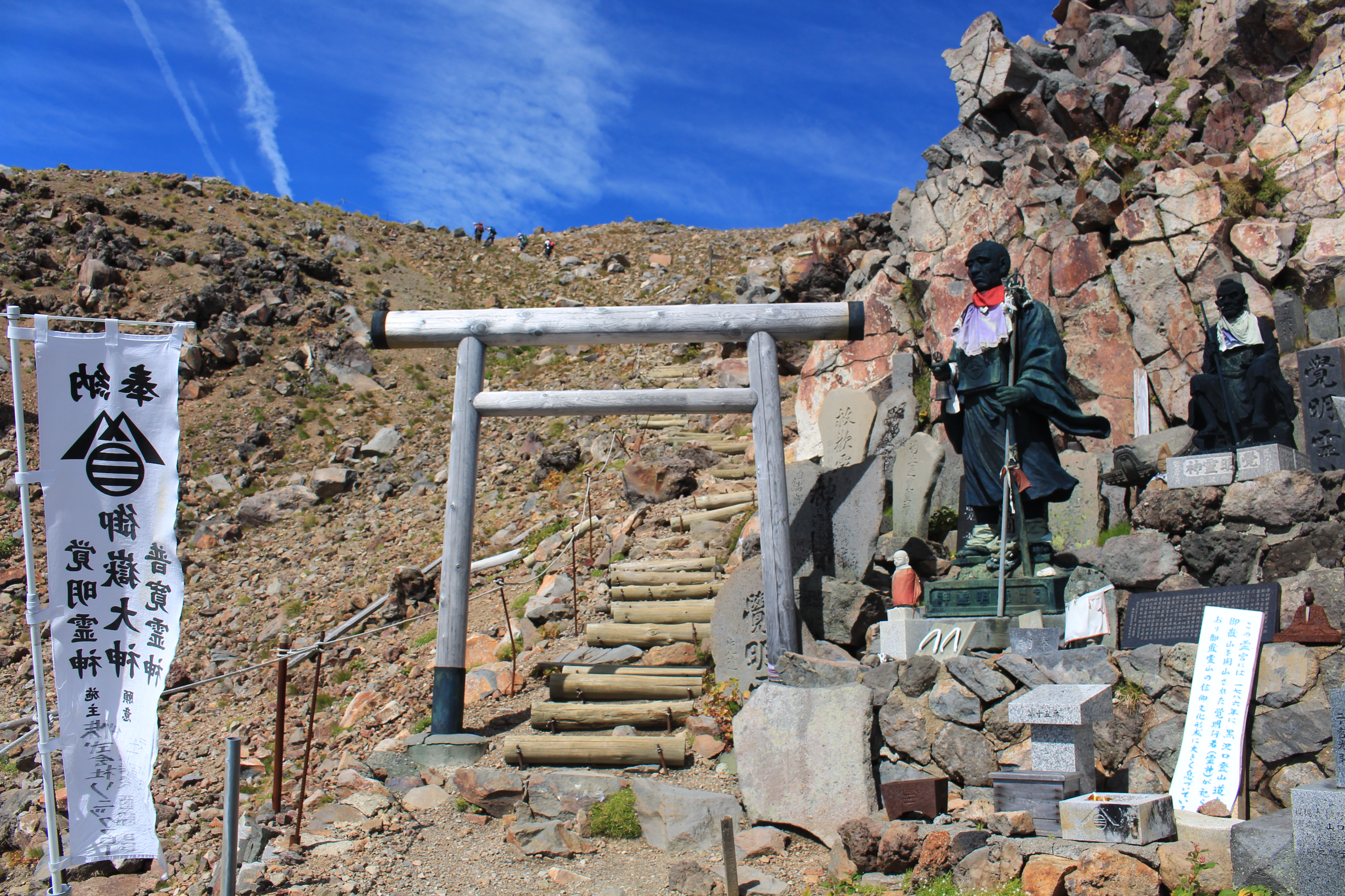 Kakumei gyoja at Kakumeidō (mountain hut) on Kurosawa route for Mount Ontake, Kiso, Nagano prefecture, Japan.